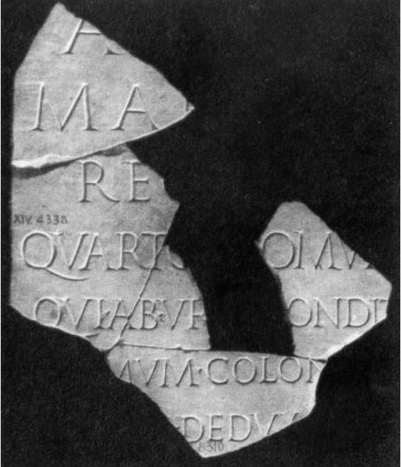 Ostia, honorary inscription for Ancus Marcius, second century AD